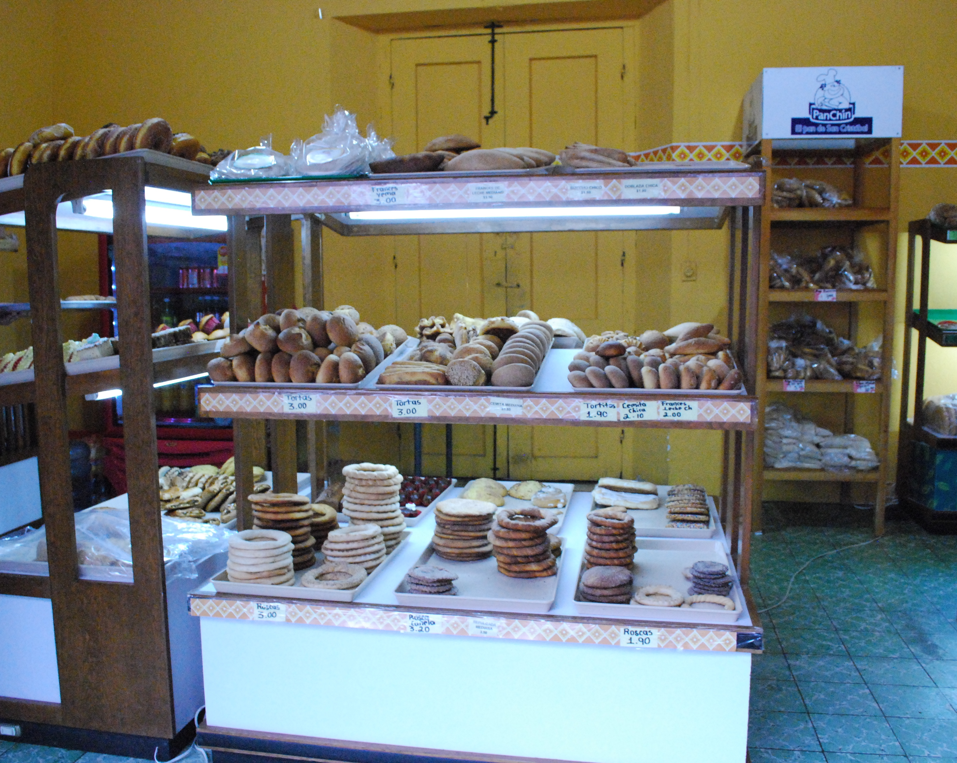 Inside a bakery in San Cristobal de las Casas, Chiapas, Mexico